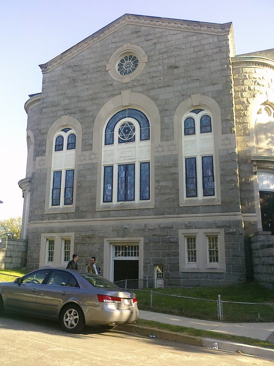 Shaarei Tefiloh synagogue in Baltimore, Maryland